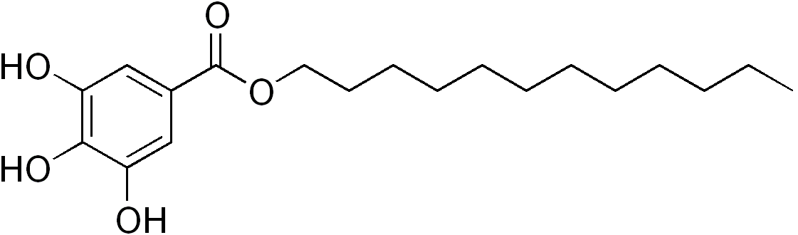 chemical structure of dodecyl gallate